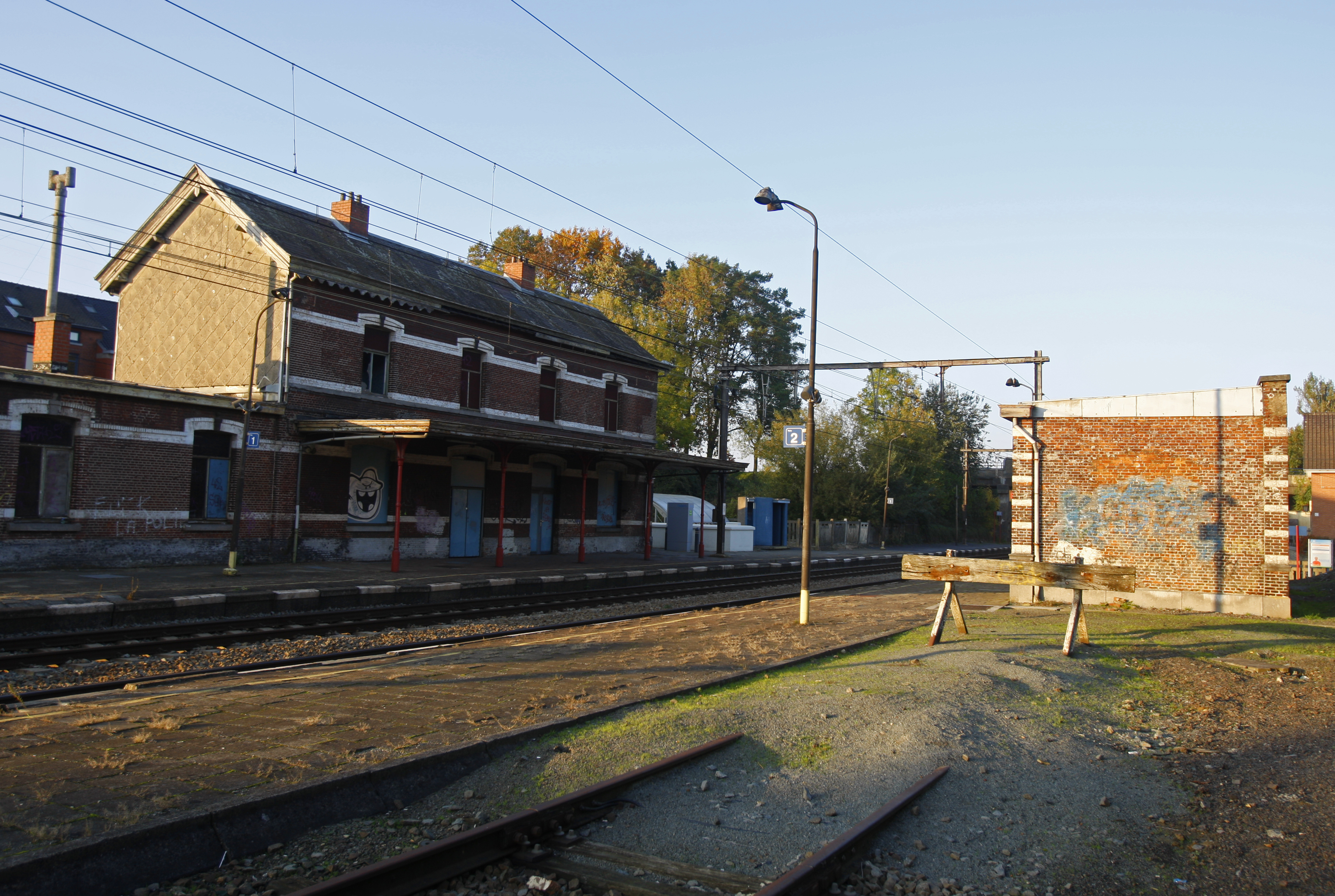 Hennuyeres station, Hennuyeres, Hainaut province, Wallonia, Belgium - SNCB line 96 from Brussels-Midi to Quevy